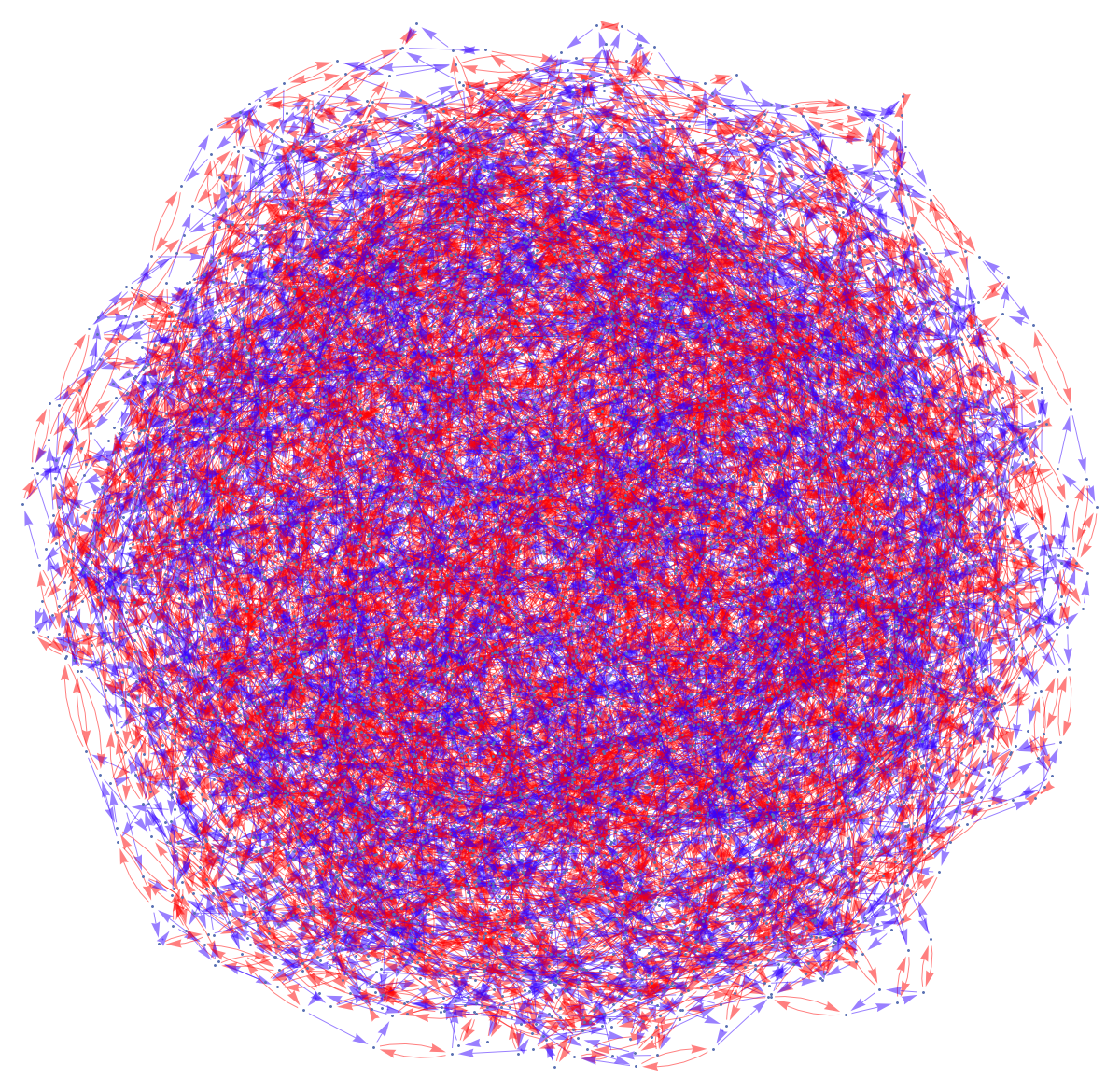 A Cayley Graph of MathieuGroupM11 created in Mathematica using the Wolfram Language code CayleyGraph[MathieuGroupM11[ .